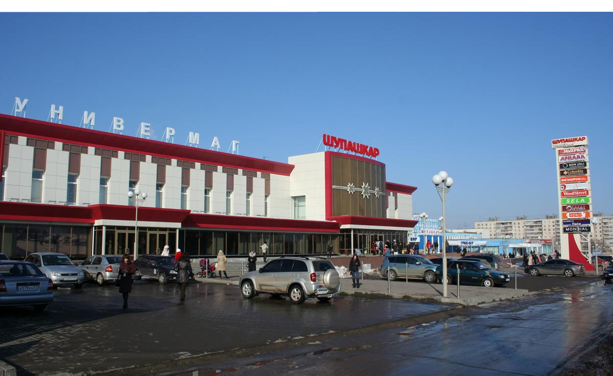 Shop Shupashkar